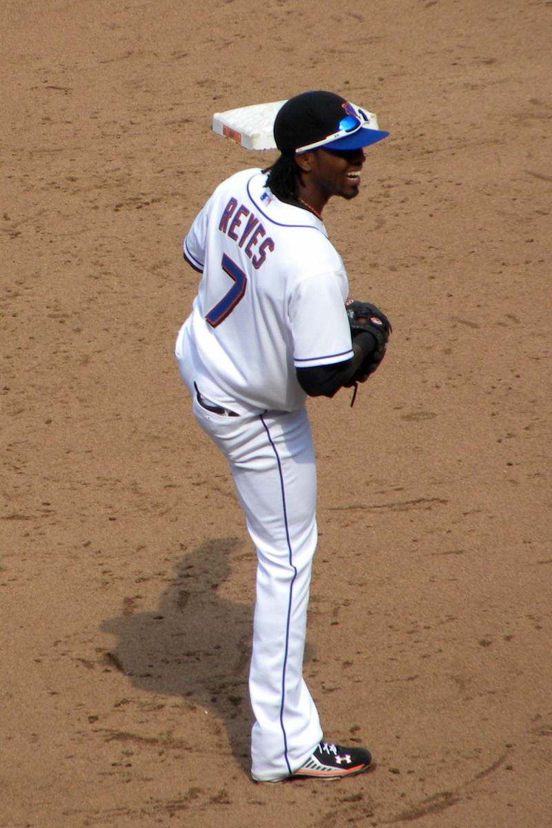 José Reyes